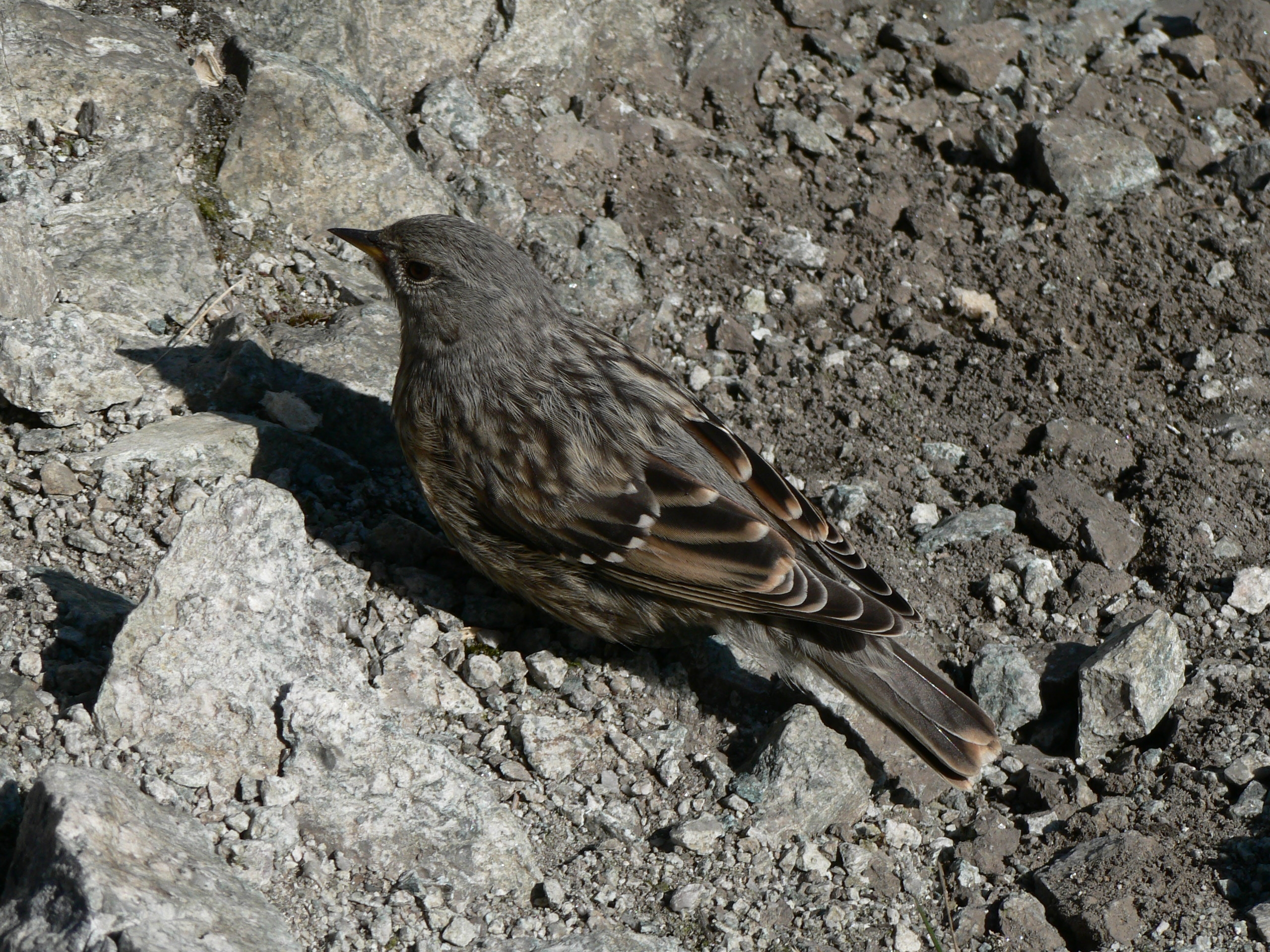 Alpine Accentor on top of Krivan, High Tatras, Slovakia.